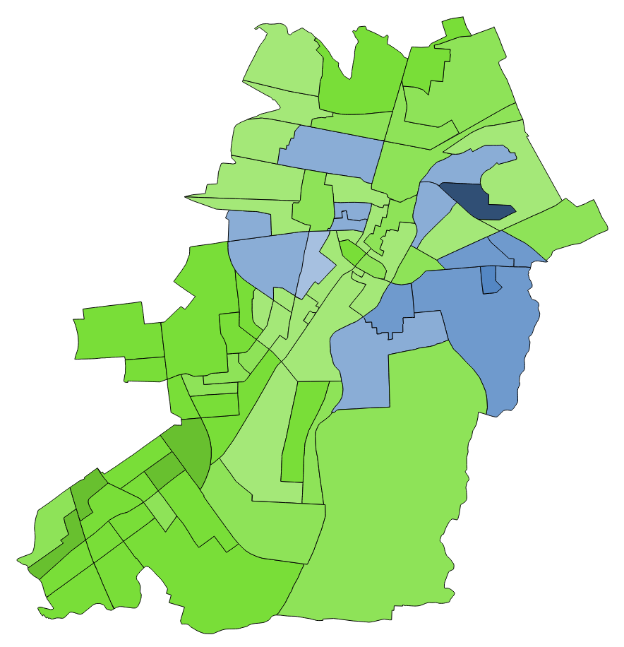 顏色對照表